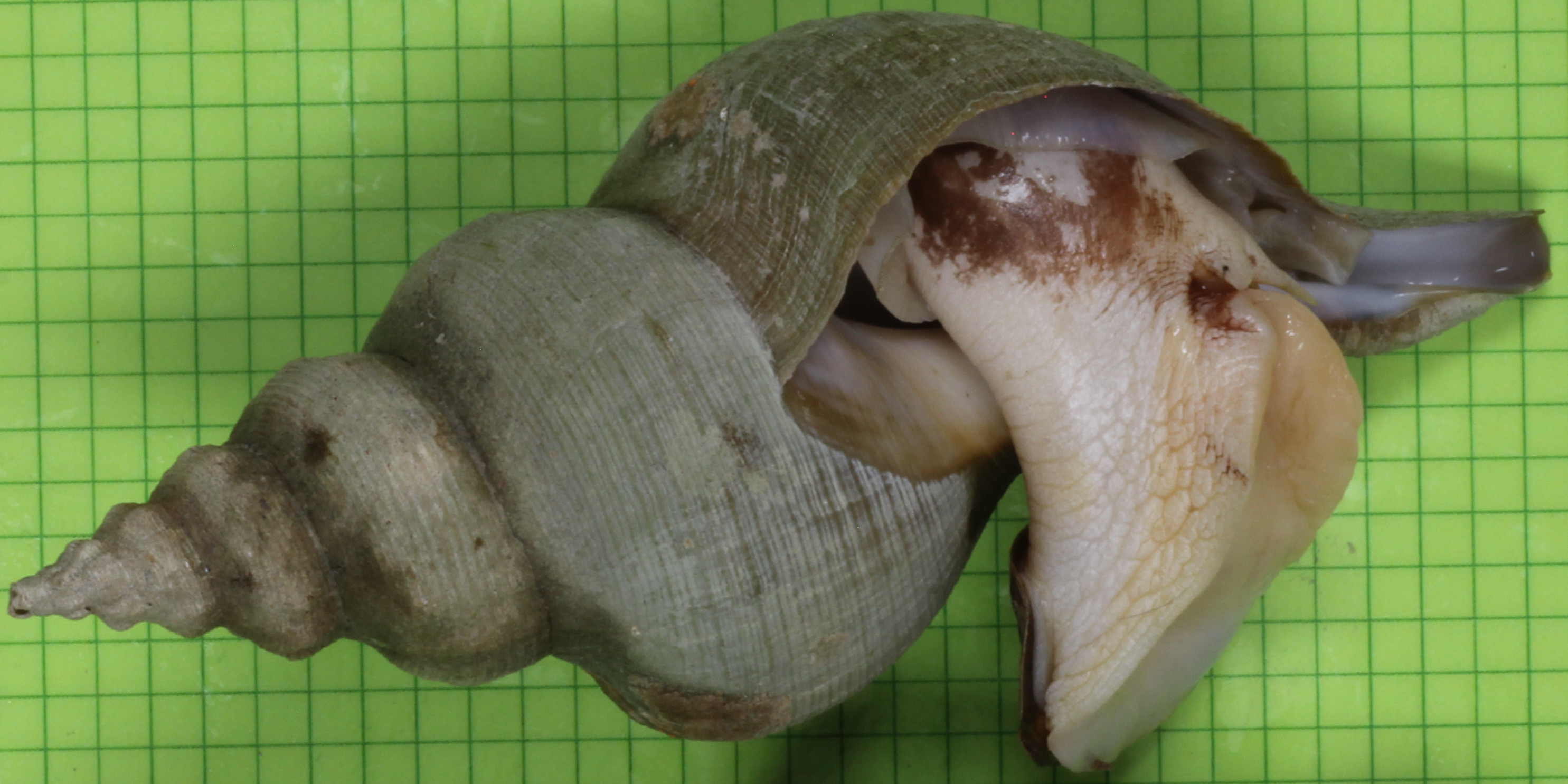 An animal of a female siphon whelk Penion cuvierianus jeakingsi, collected from Golden Bay in New Zealand.